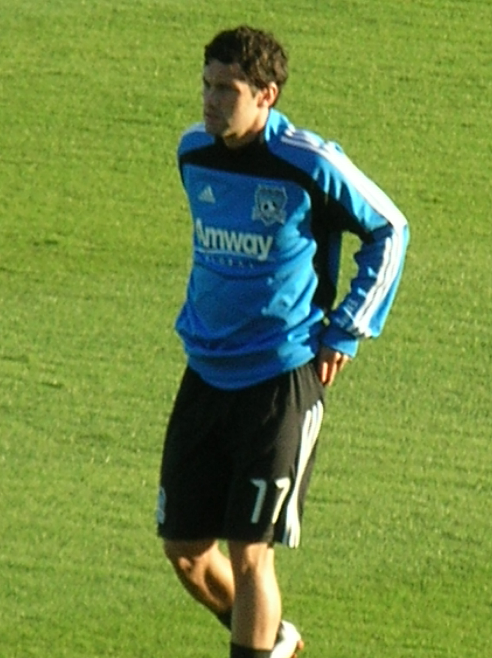 San Jose Earthquakes midfielder Joey Gjertsen warming up before a home game against the Philadelphia Union. The Earthquakes won 1-0.